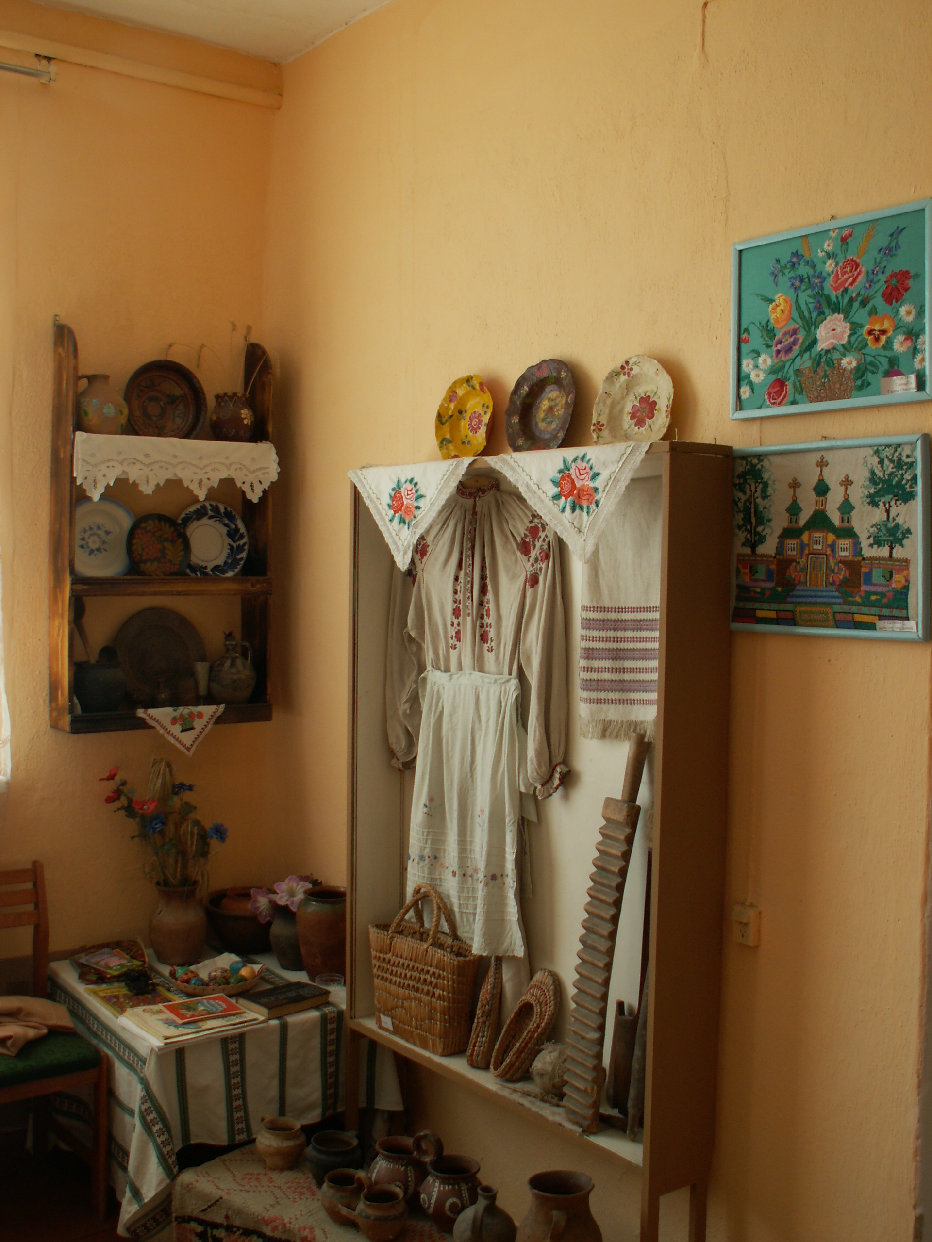 Світлиця в бібліотеці